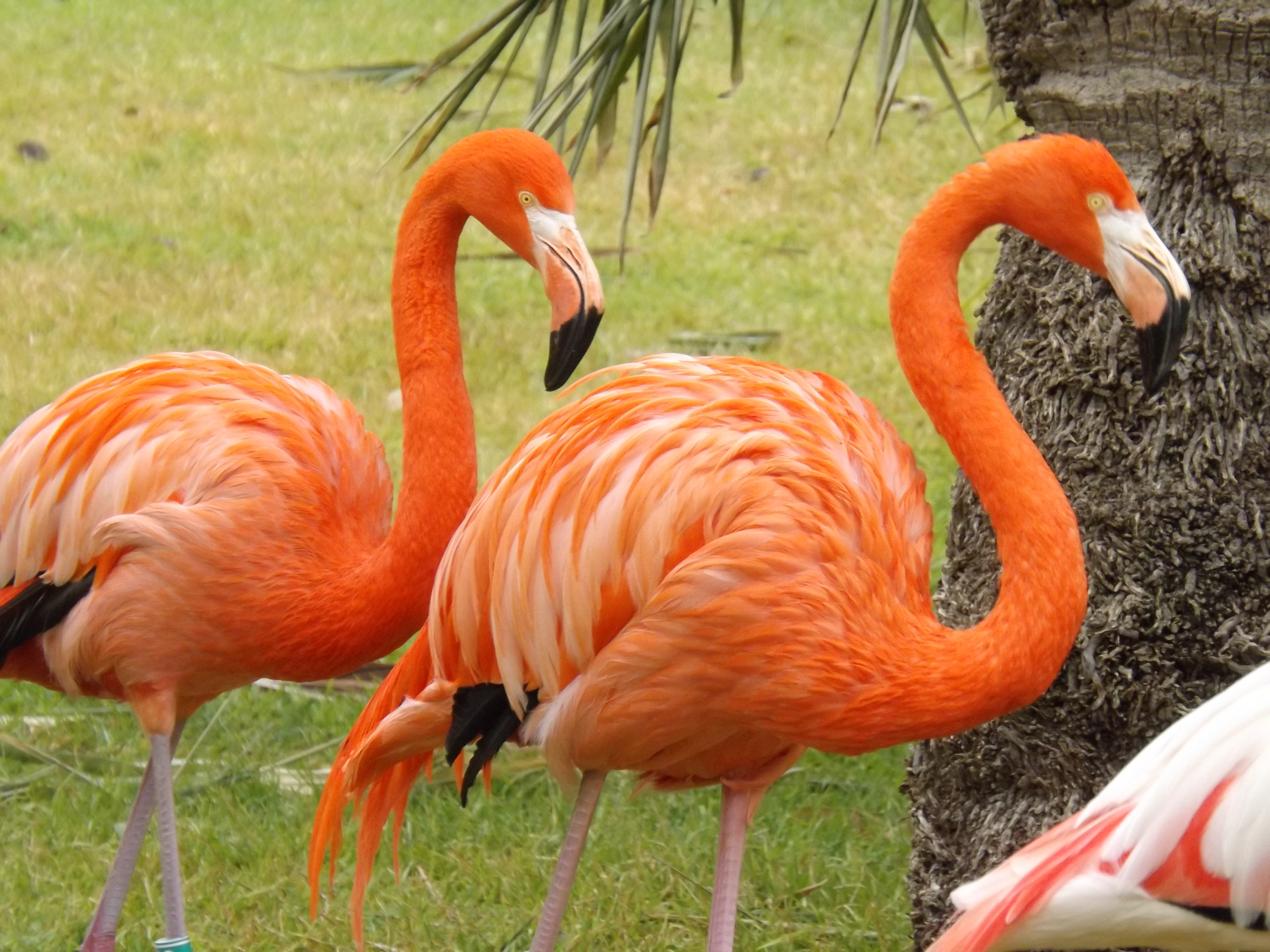 American flamingoes (Phoenicopterus ruber) at the Jerusalem Biblical Zoo.